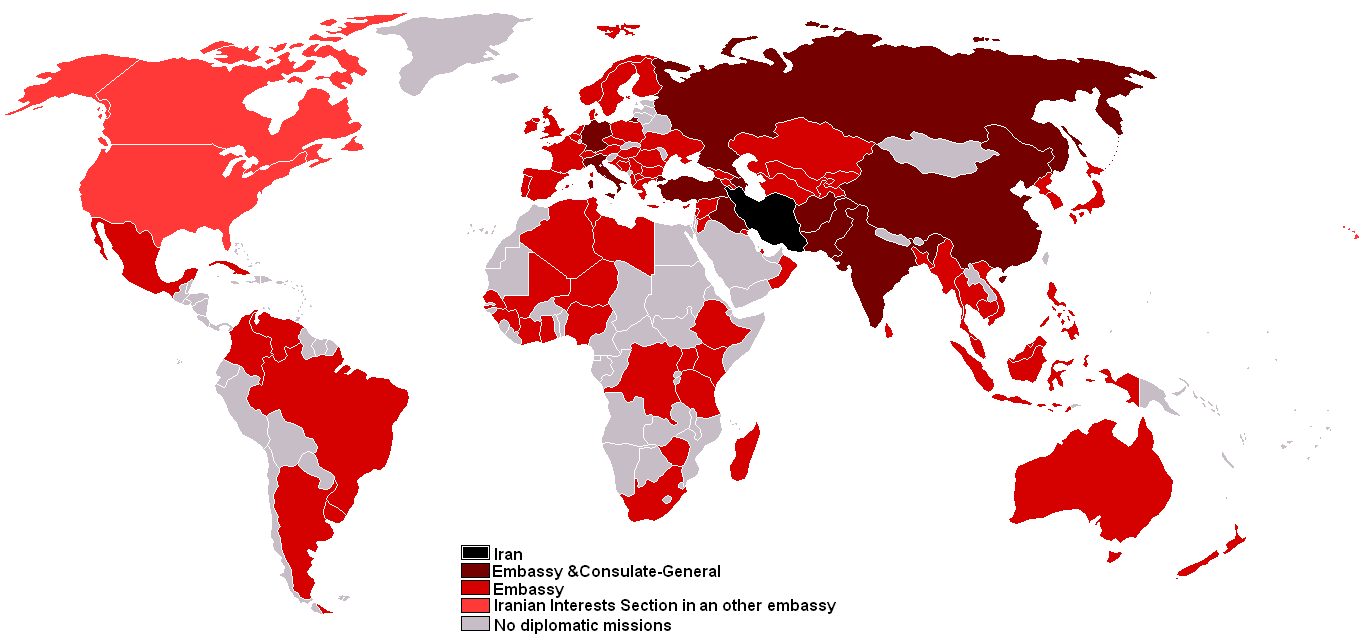 Map of Iranian diplomatic missions in other countries